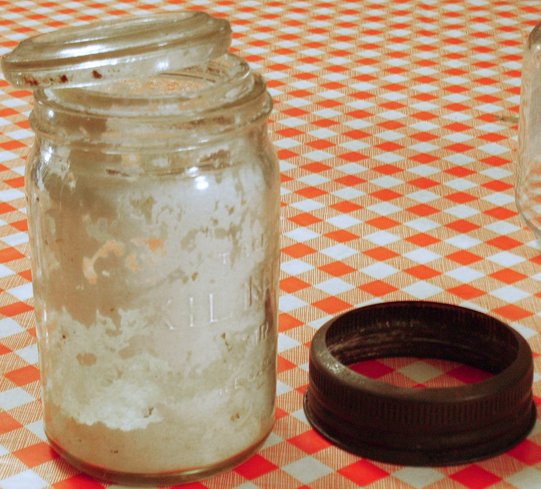 A Kilner jar from no later than 1928, open to show lid mechanism